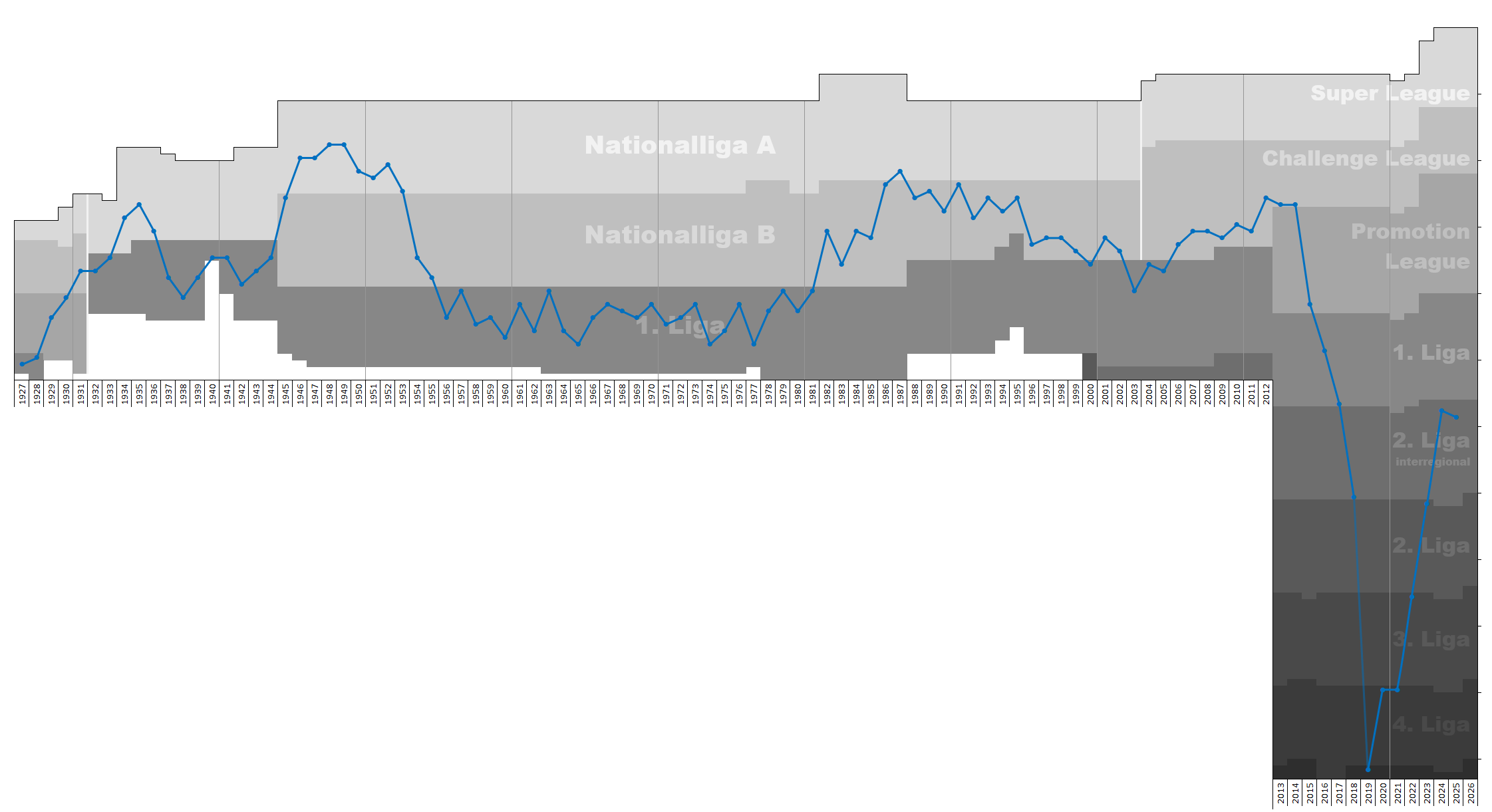 Chart of end-season table positions for FC Locarno in the Swiss football league system. Data source: RSSSF